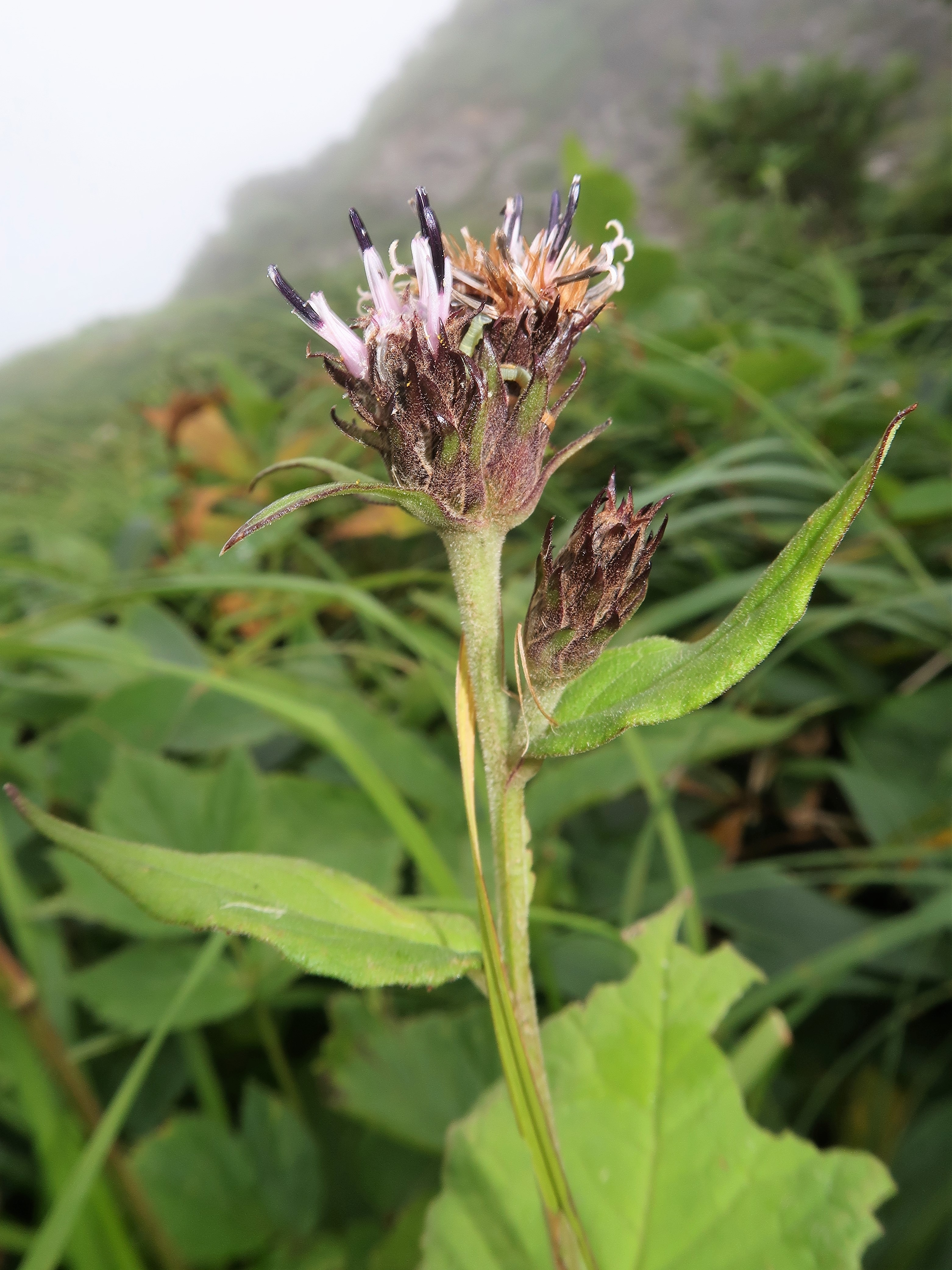 Saussurea sessiliflora, Mount Tanigawa-dake, Gunma pref., Japan